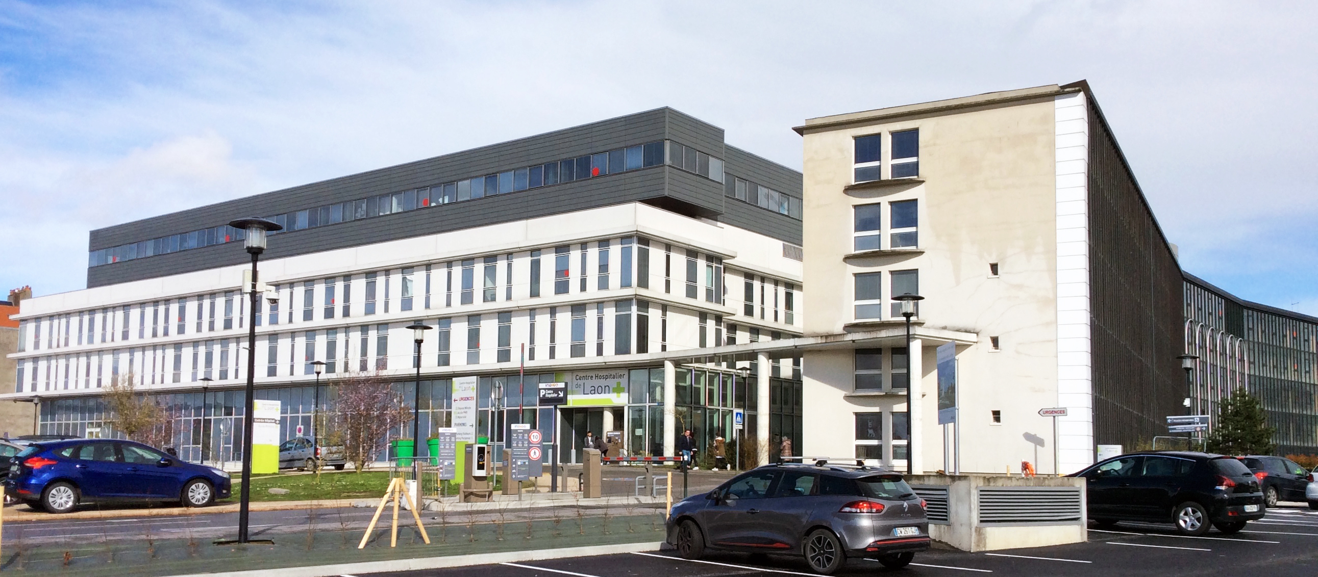 Centre Hospitalier de Laon, France, 2019